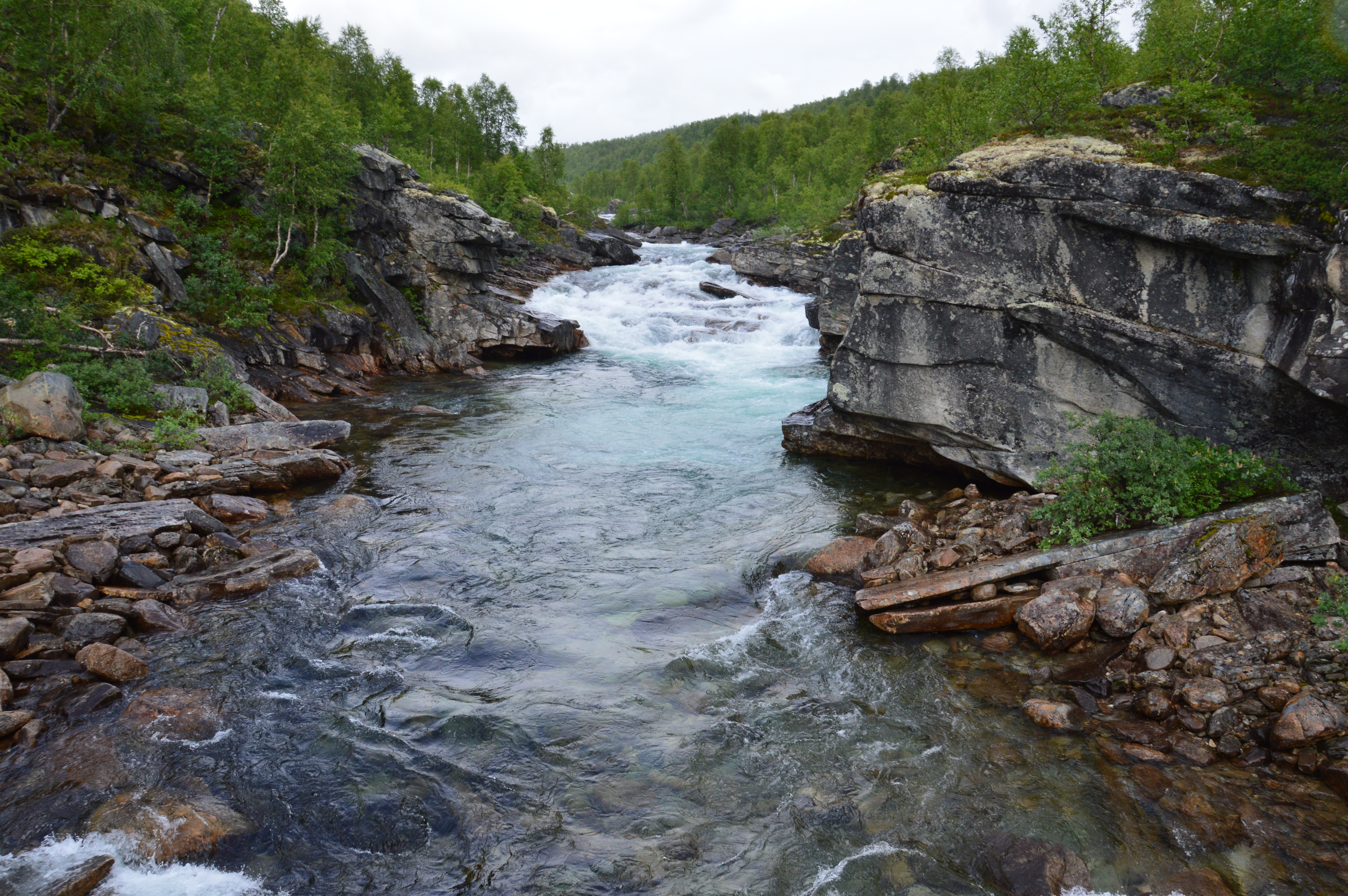 Gubbeltåga